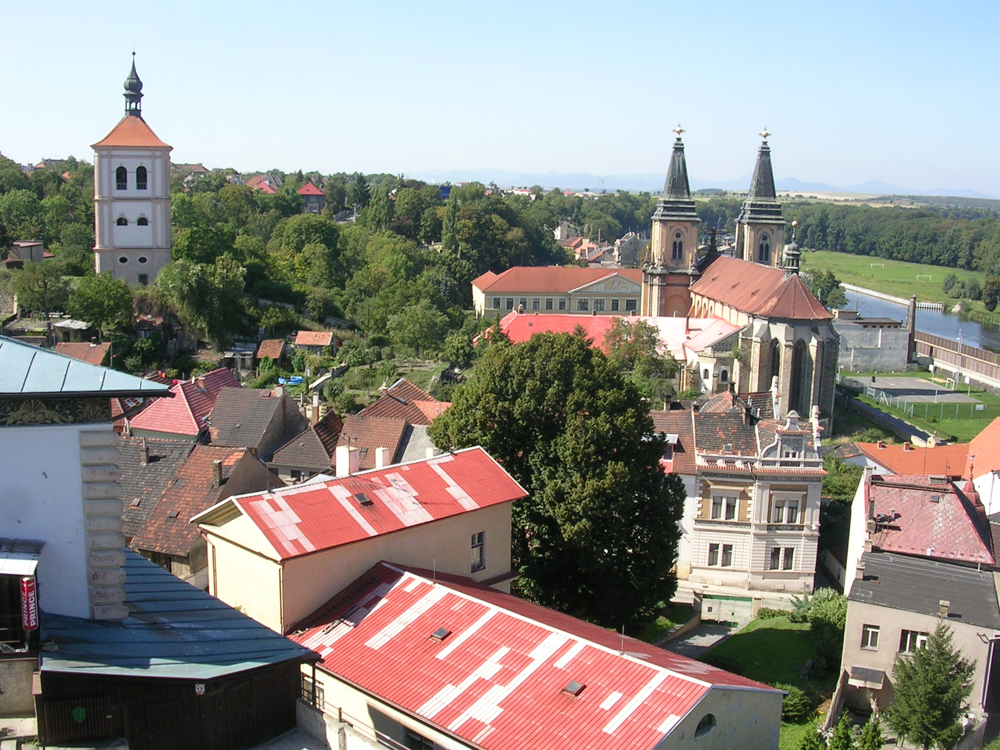 Roudnice nad Labem, Ústí nad Labem Region, the Czech Republic.